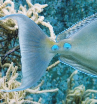 Photo is supposed to show the sharp knifes this kind of fish has at his end